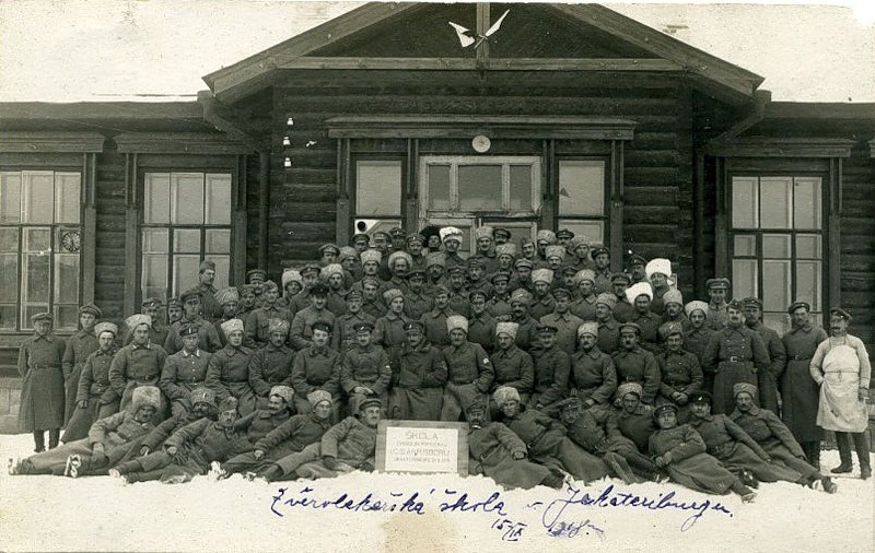 Czechoslovaks in Yekaterinburg, 1918